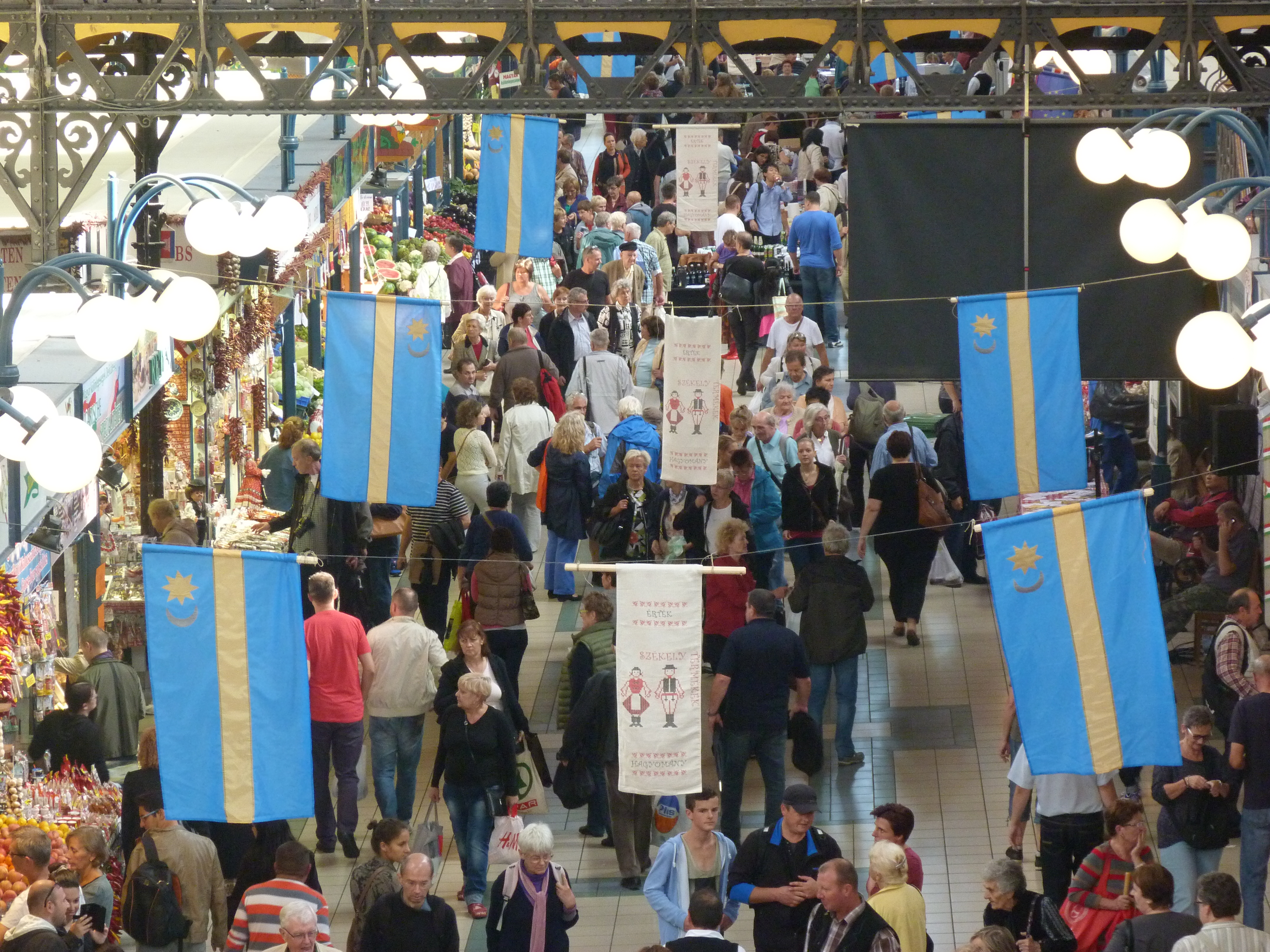 Live on the 12th of September, 2014. Budapest, Great Market Hall. Székely Land in the Great Market Hall. Goods of Székely Land. Legends of Székely Land. Map of Székely Land. ©© Derzsi Elekes Andor, Budapest 2014, You are authorised to use these photos and vids under Creative Commons – even for commercial, for profit purposes. Photos must be attributed to Derzsi Elekes Andor. All of the photos and vids in the Metapolisz DVD line are under Creative Commons and can be used even for commercial – for profit – purposes. Recommended Citation Derzsi Elekes Andor: Metapolisz DVD line